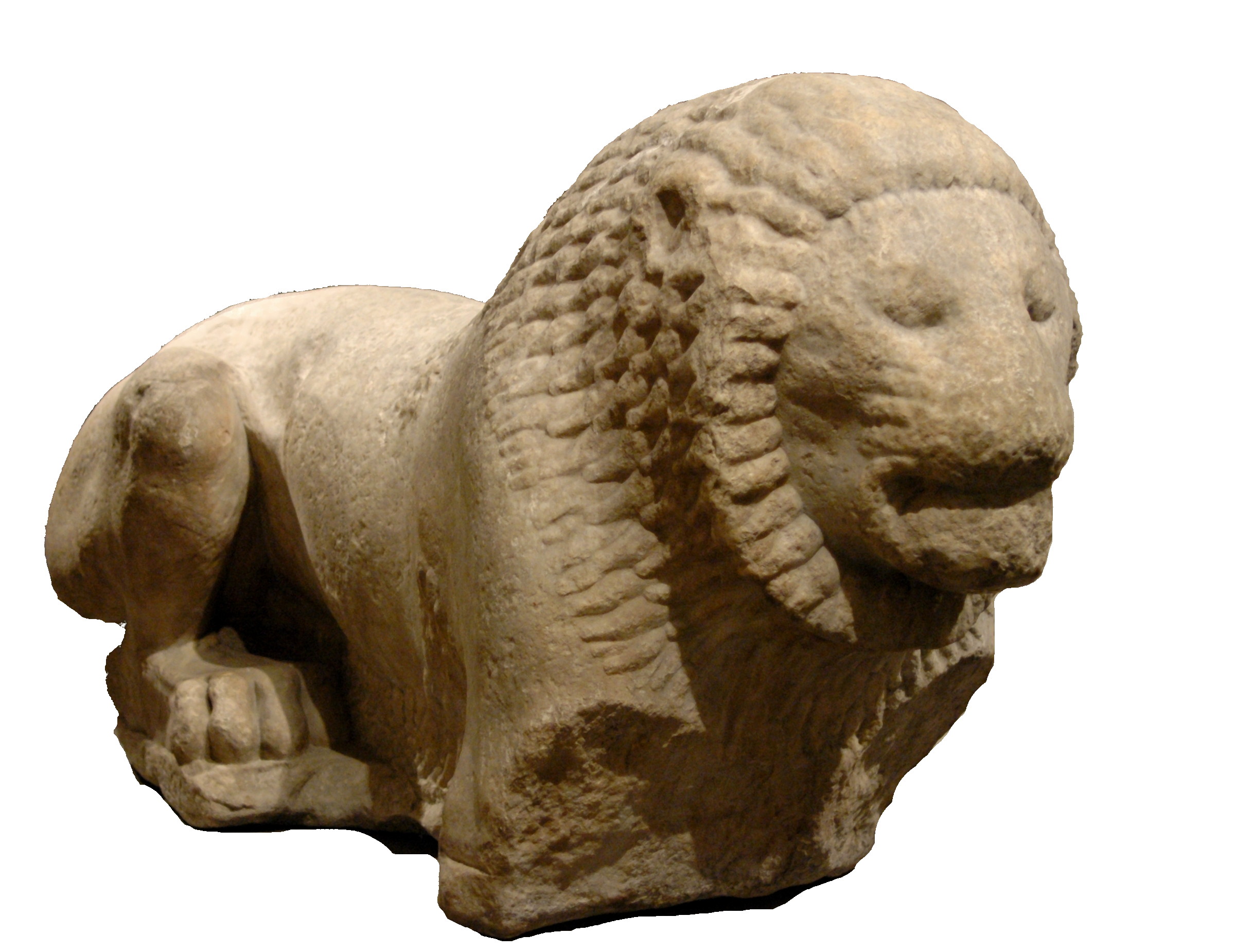 Funerary lion. Marble, end of the 6th century or beginning of the 5th century BC. From the necropolis of Miletus.